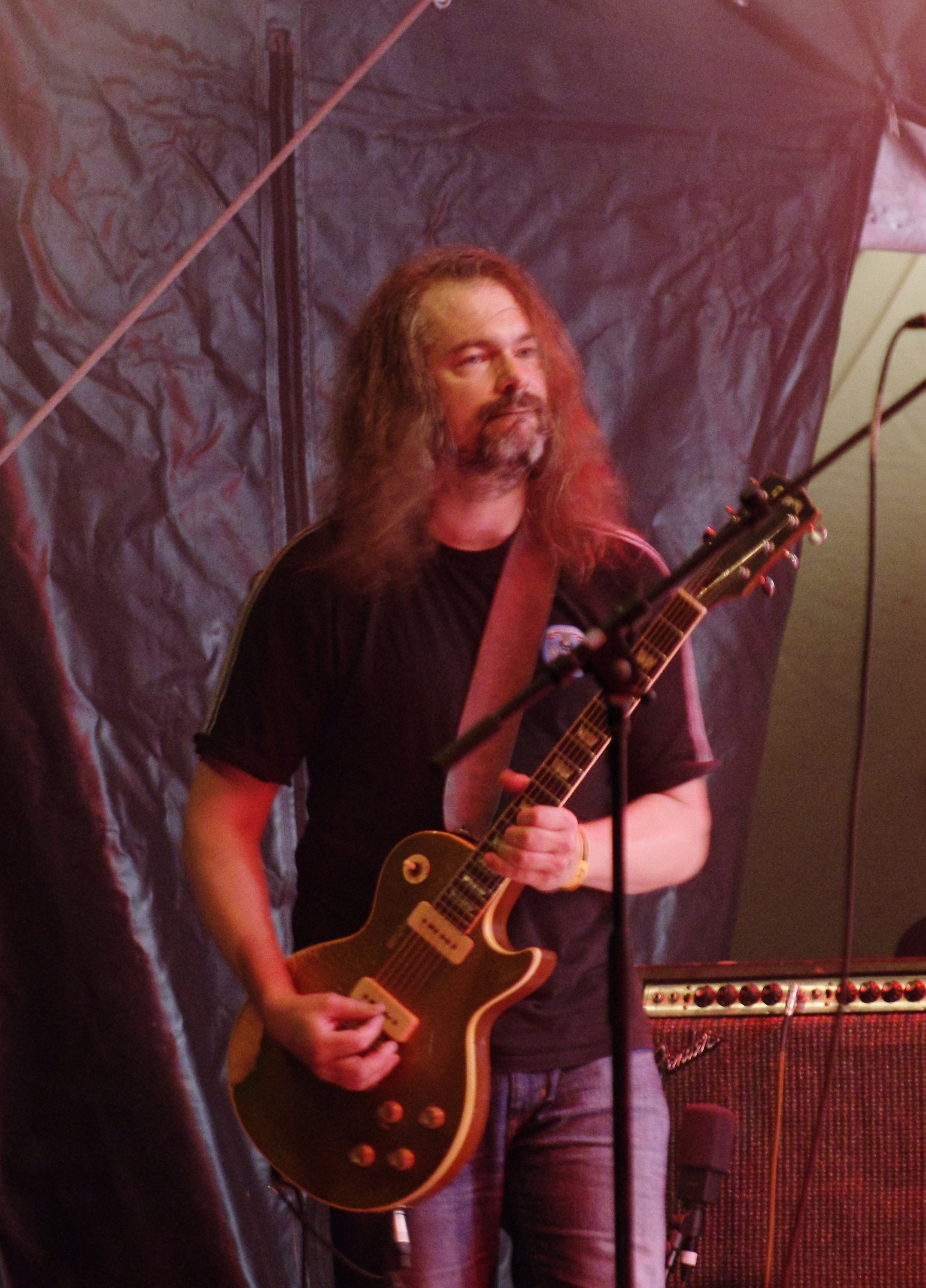 Motorpsycho at Krach am Bach festival in Beelen. Lineup: Bent Sæther (bass/guitar/vocals), Hans Magnus "Snah" Ryan (guitar/vocals), Kenneth Kapstad (drums), Reine Fiske (guitar).